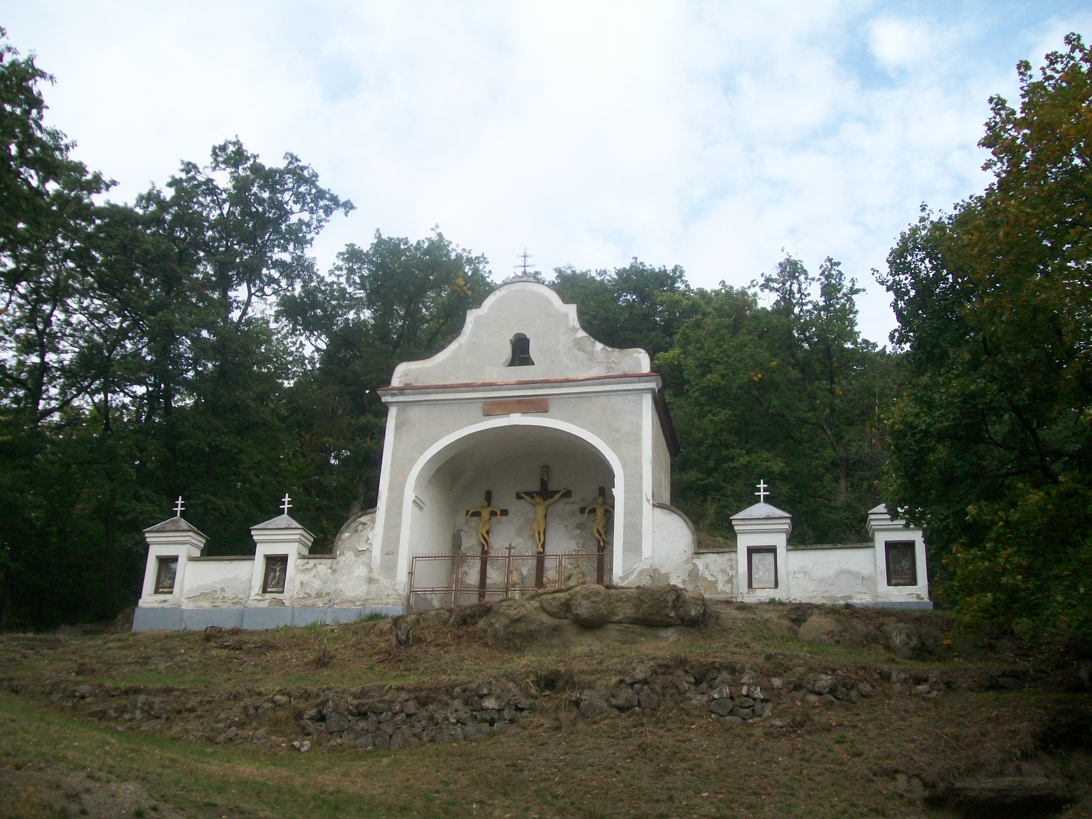 Chapels, Christ Crucified, present form Calvary came in the years 1855-1860Slovenčina: Kaplnka, Ukrižovanie Krista, súčastnú podobu Kalvária nadobudla v rokoch 1855-1860